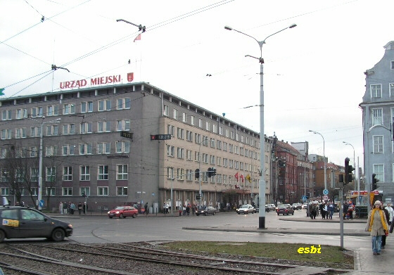 Author: esbi